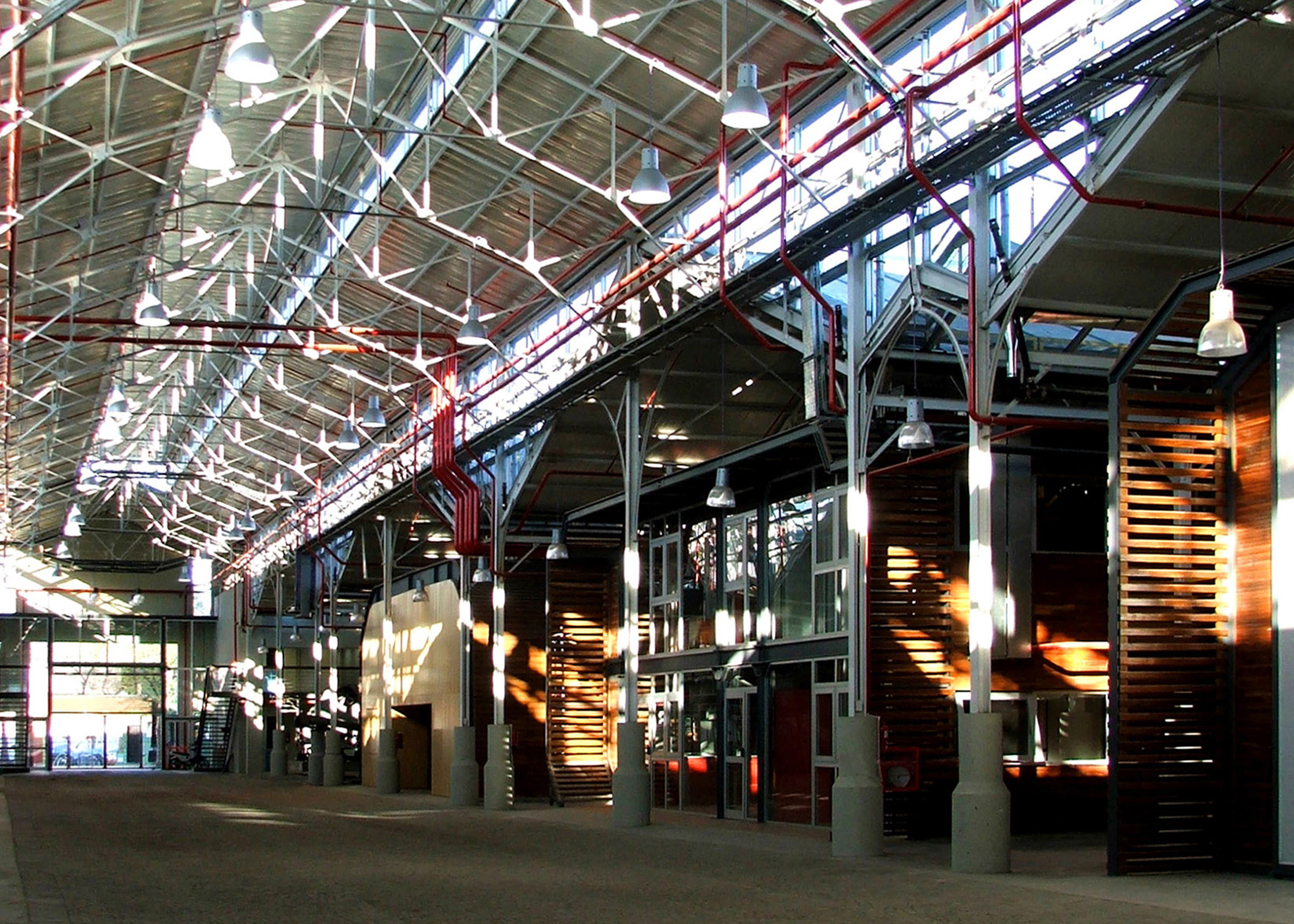 calle interior CMD